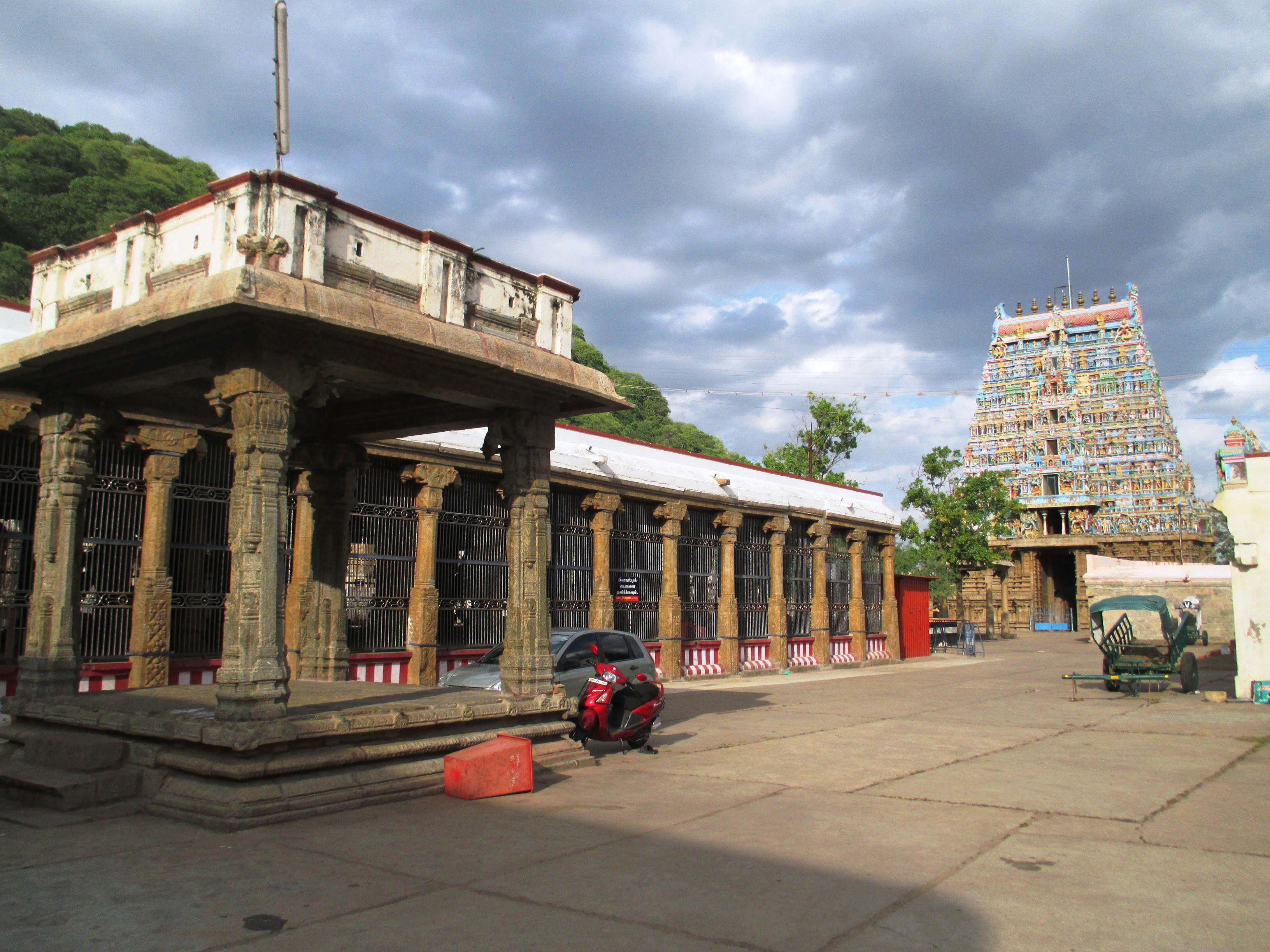 Alagar Koyil